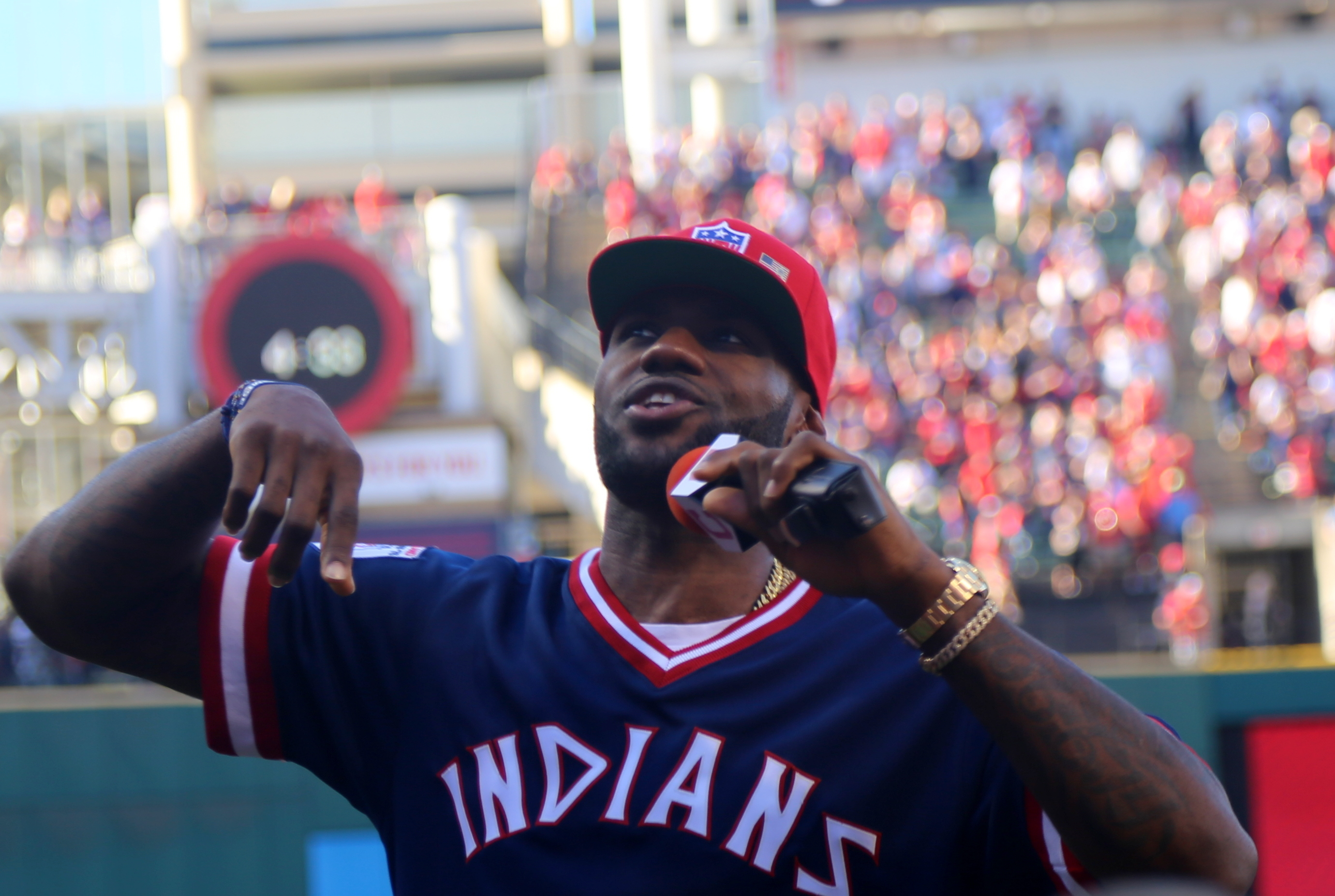 LeBron James pumps up the crowd for ALDS Game 2 at Progressive Field.